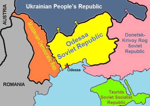 Derivative work since OdessaSovietRepublic.png but according with Charles Upson Clark « Anarchy in Bessarabia », Anthony Babel, « La Bessarabie », Felix Alcan, Genève & Paris, 1927, Jean-Jacques Marie, « La Guerre civile russe, 1917-1922 : armées paysannes, rouges, blanches et vertes », Autrement, coll. « Mémoires », 2005, ISBN 2746706245, Sergei P. Melgunov, « La terreur rouge en Russie 1918-1924 », Payot 1927 and Nicolas Werth, « Histoire de l'Union soviétique », PUF 1999, ISBN 2-13-044726-0.